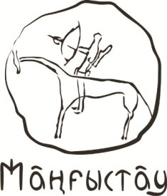 Mangystau logo